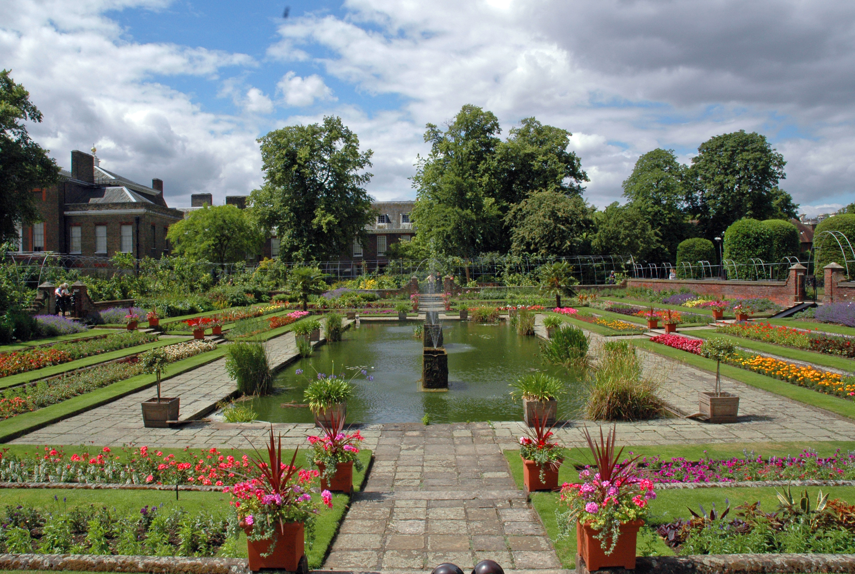 The Sunken Garden at Kensington Palace